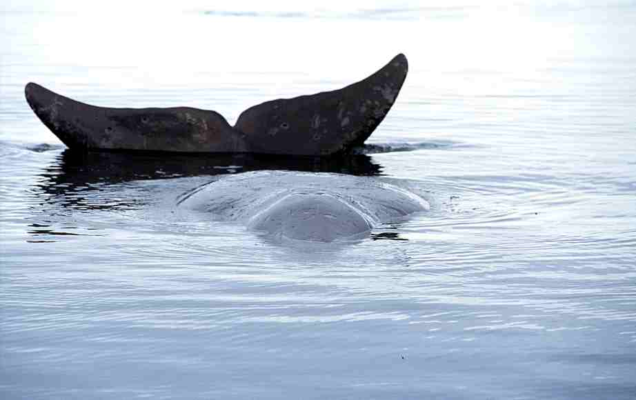 Bowhead whale (Balaena mysticetus) I, Foxe Basin (Nunavut, Canada)